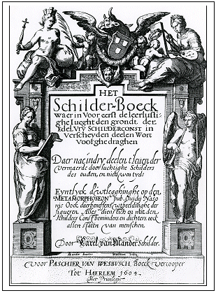 Opening page of K. Van Mander's Het schilder-boeck (1604)